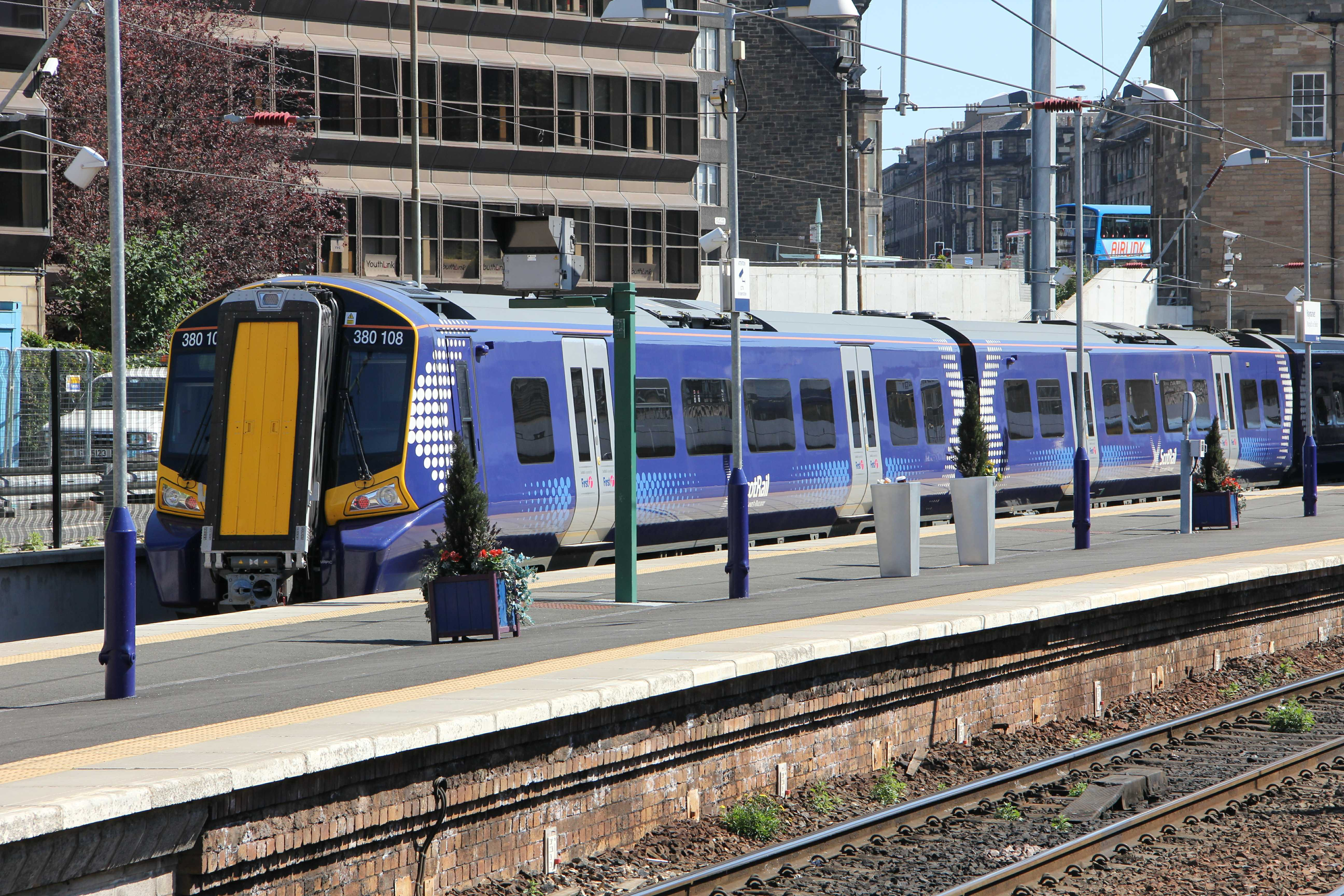 British Rail Class 380 unit 380108 at Haymarket railway station platform 0